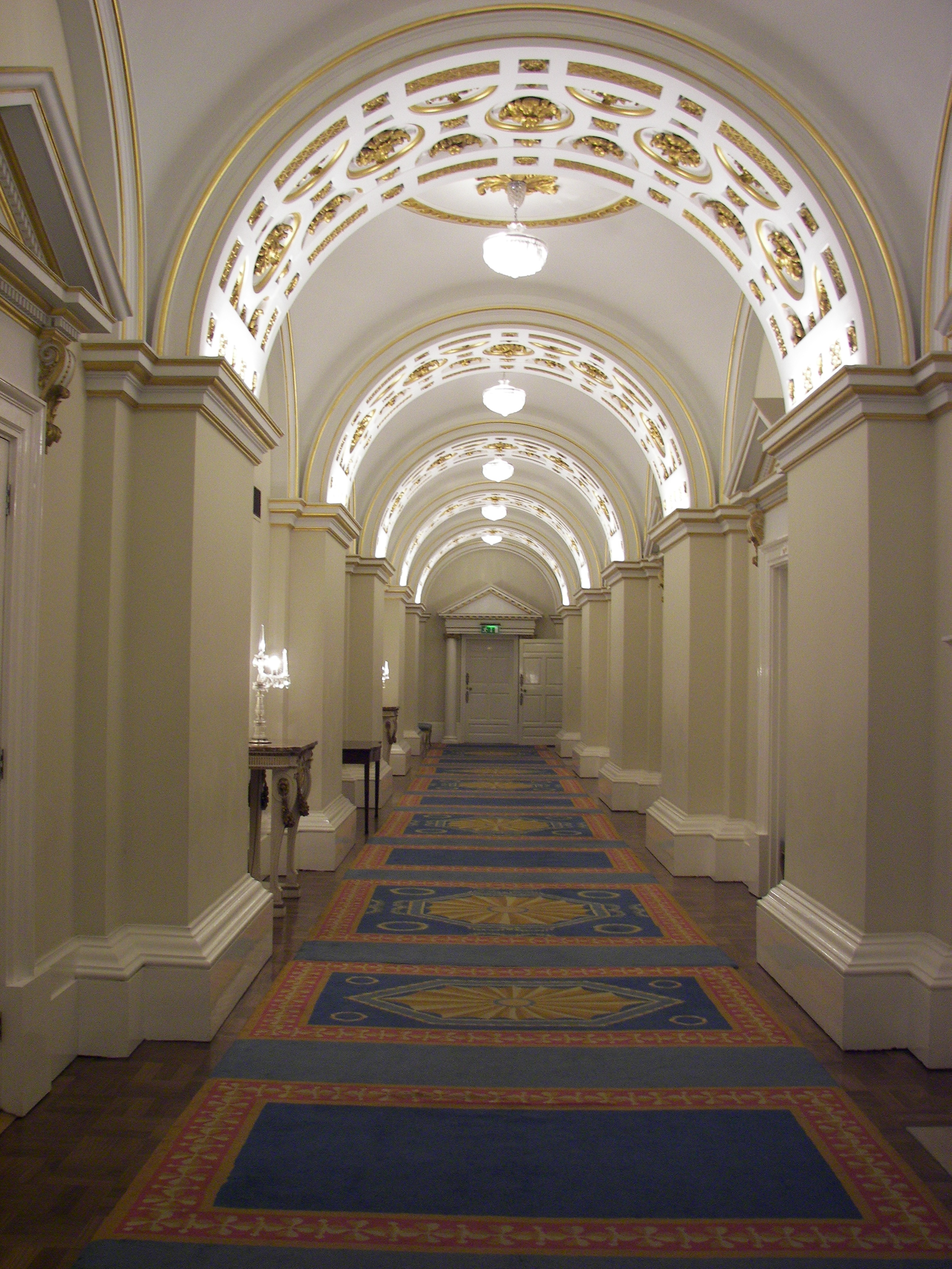 State Corridor of the Dublin Castle State Apartments.